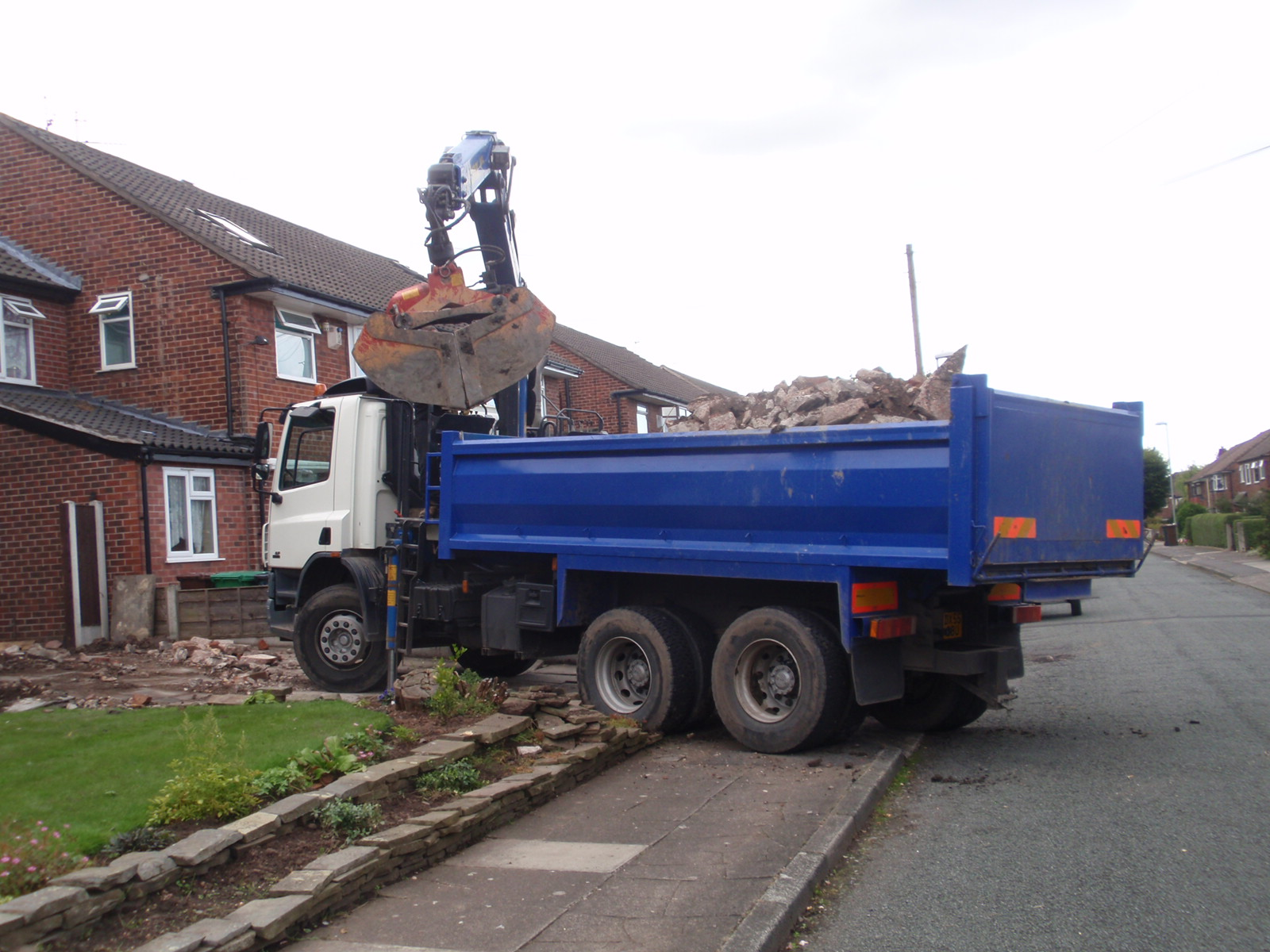 Clamshell grab and arm on truck, loading concrete demolition rubble